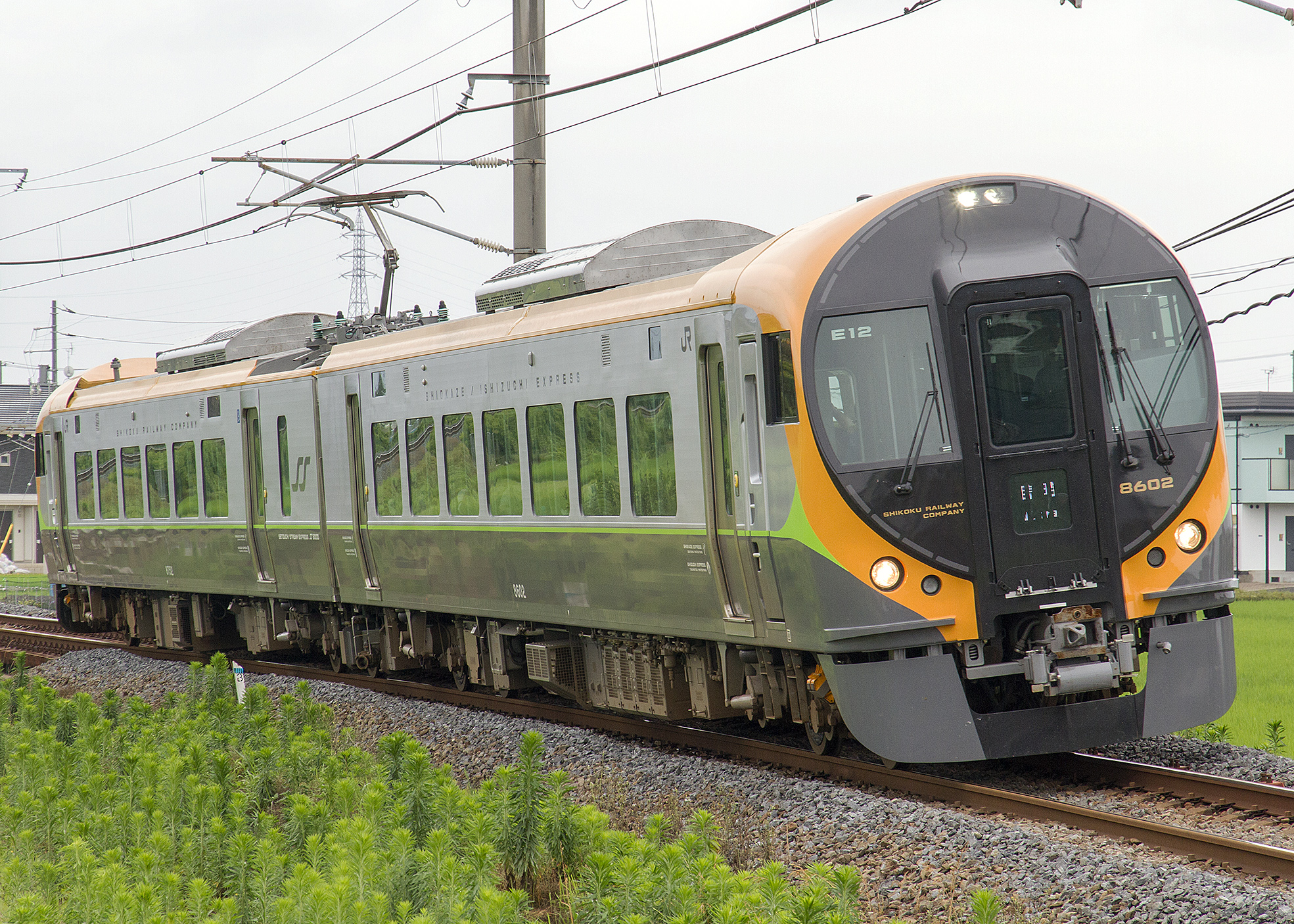 JR Shikoku 8600 series EMU set E12 (cars 8602 + 8752) near Kanonji Station